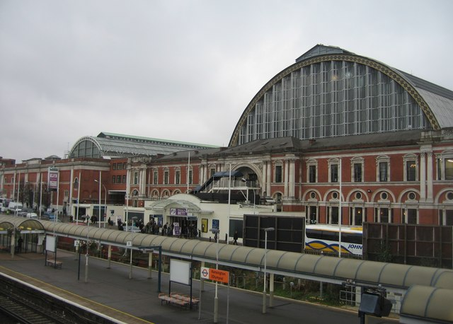 Olympia Exhibition Halls Viewed from the station footbridge.